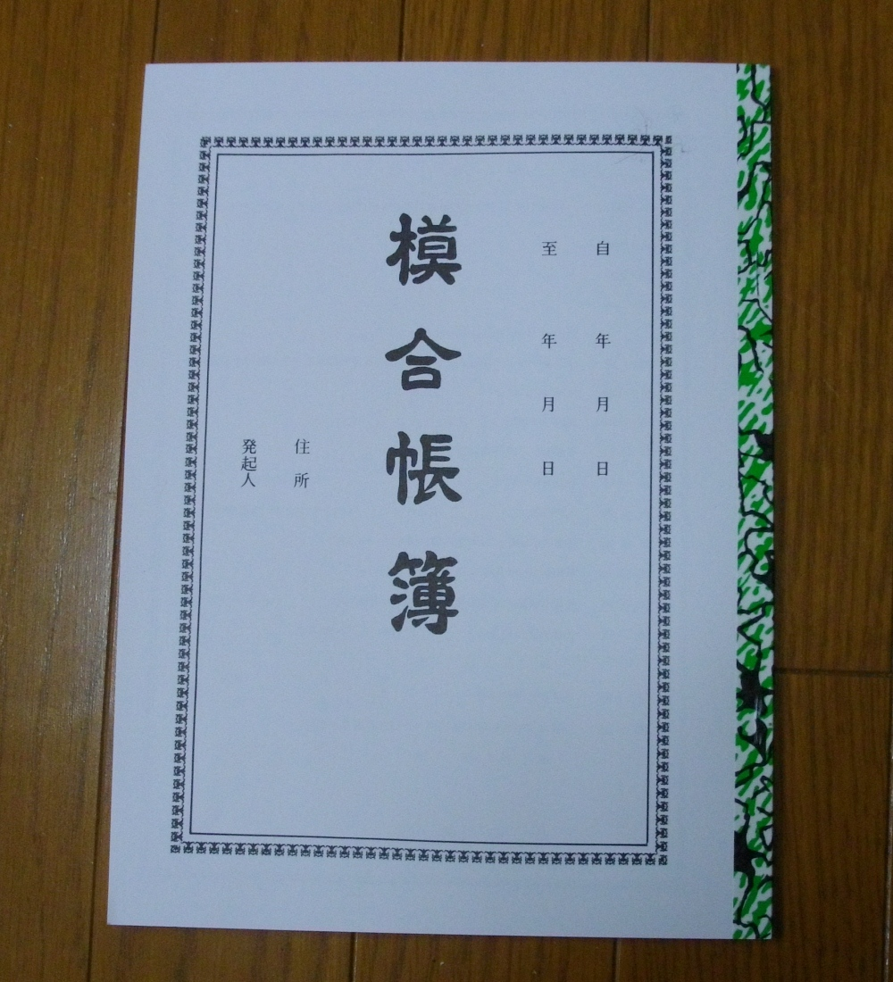 Moai book